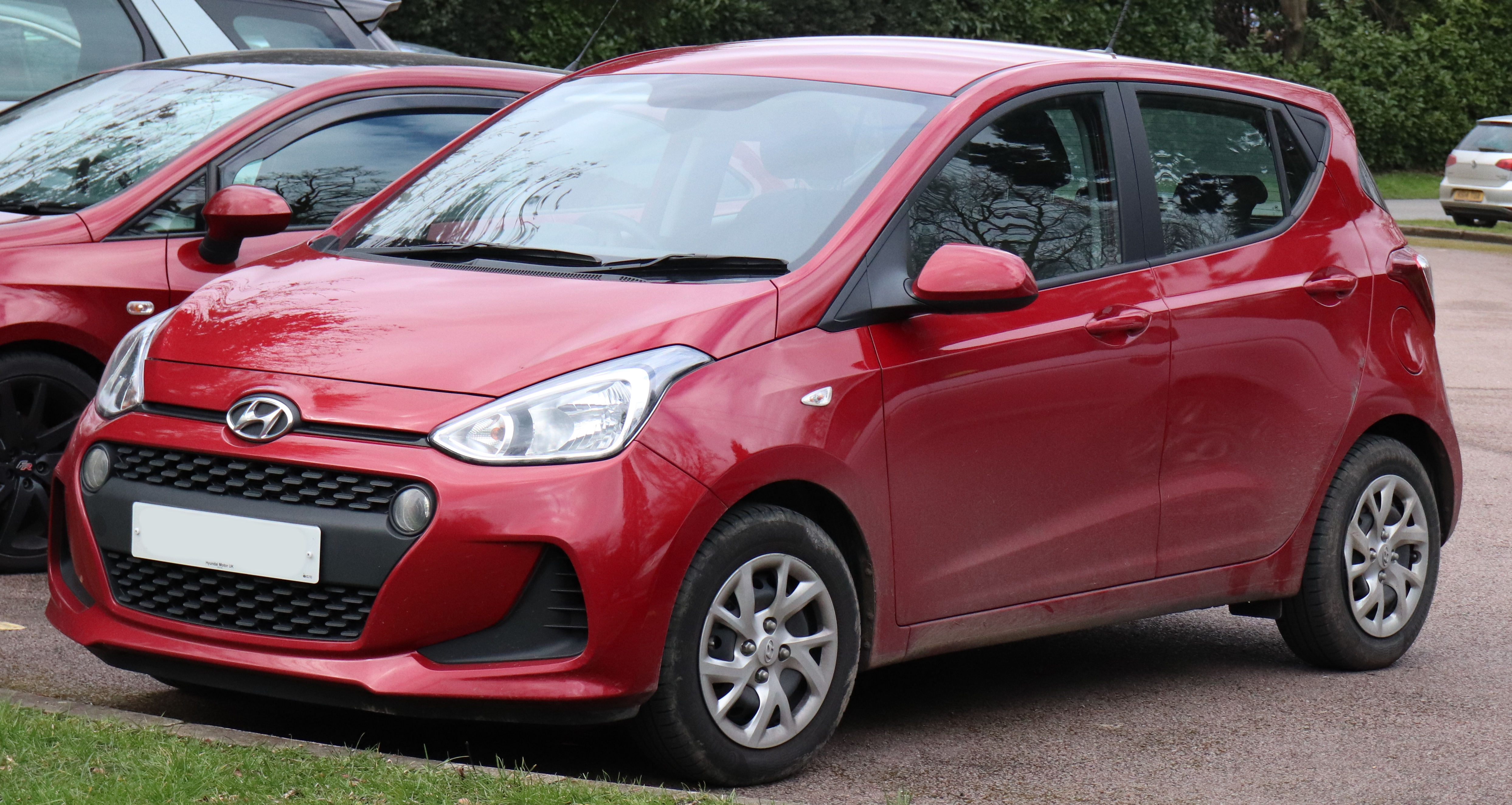 2017 Hyundai i10 SE Automatic 1.2 Taken in Warwick